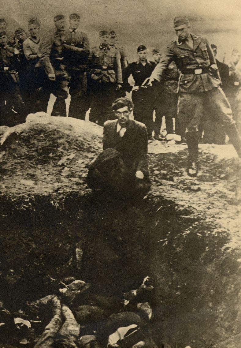 German soldiers of the Waffen-SS and the Reich Labor Service look on as a member of an Einsatzgruppe prepares to shoot a Ukrainian Jew kneeling on the edge of a mass grave filled with corpses.